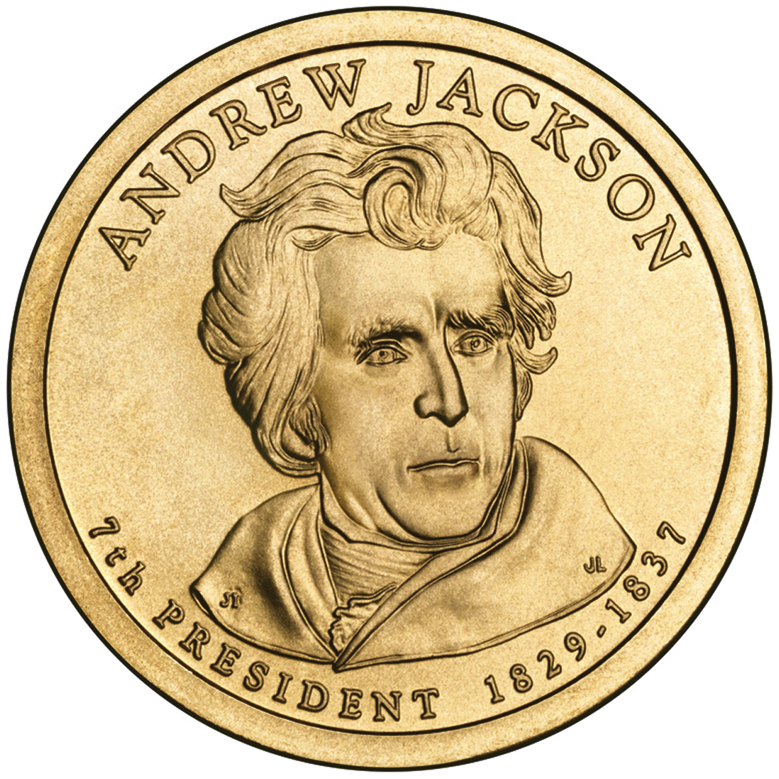 Presidential $1 Coin Program coin for Andrew Jackson. Obverse.